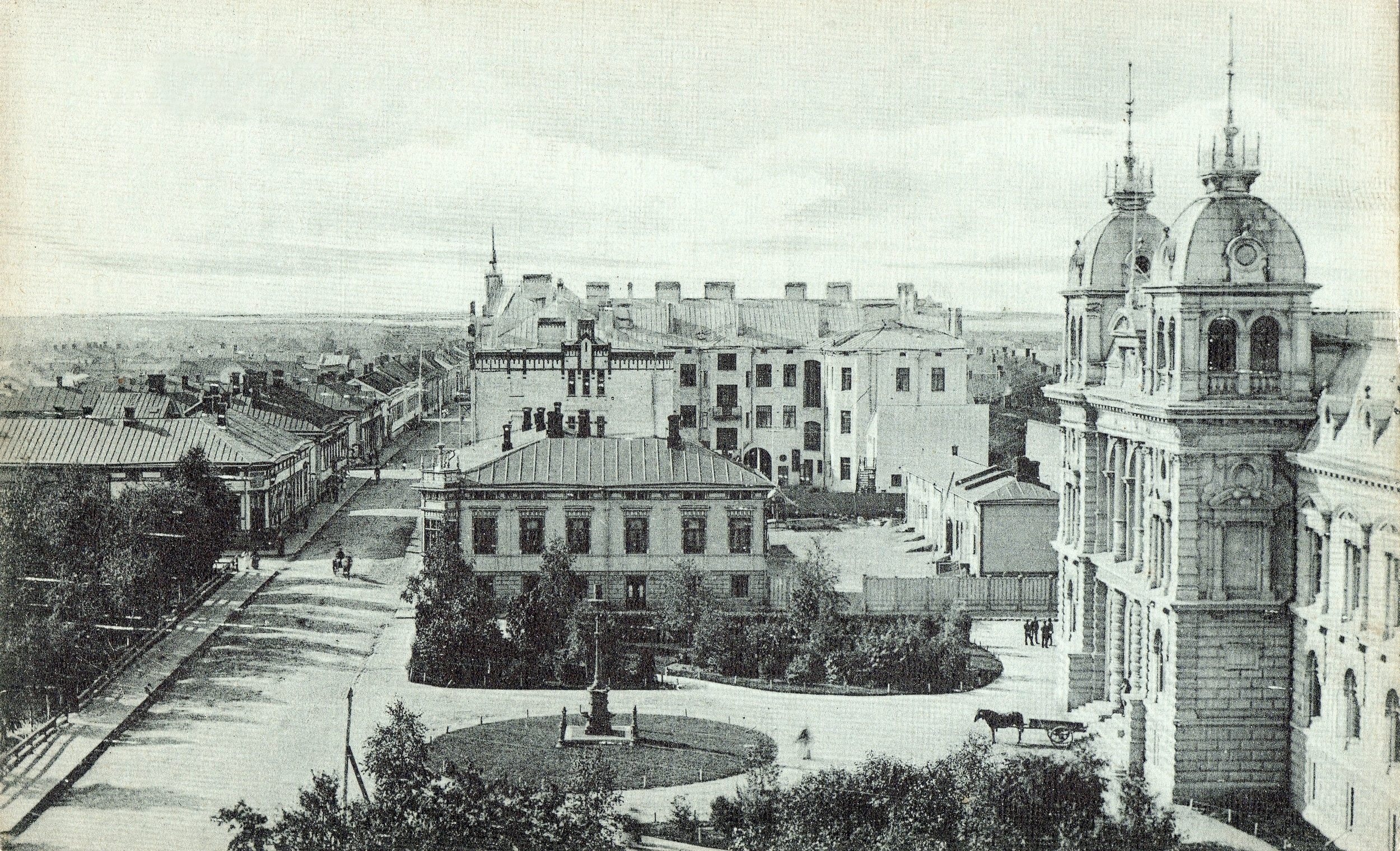 Kirkkokatu street in Oulu in early 20th century.